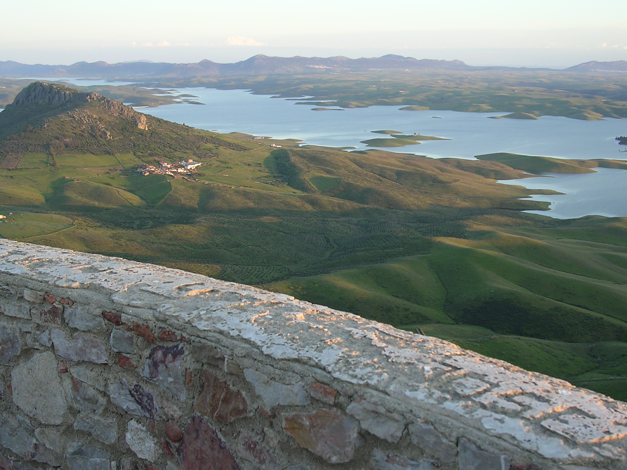 La Serena's dam view from Puebla de Alcocer's castle This is a photography of a Special Area of Conservation in Spain with the ID: ES4310010. Natura2000 entry, EEA entry